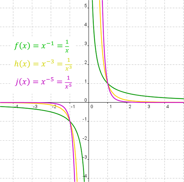 Inverse odd power function